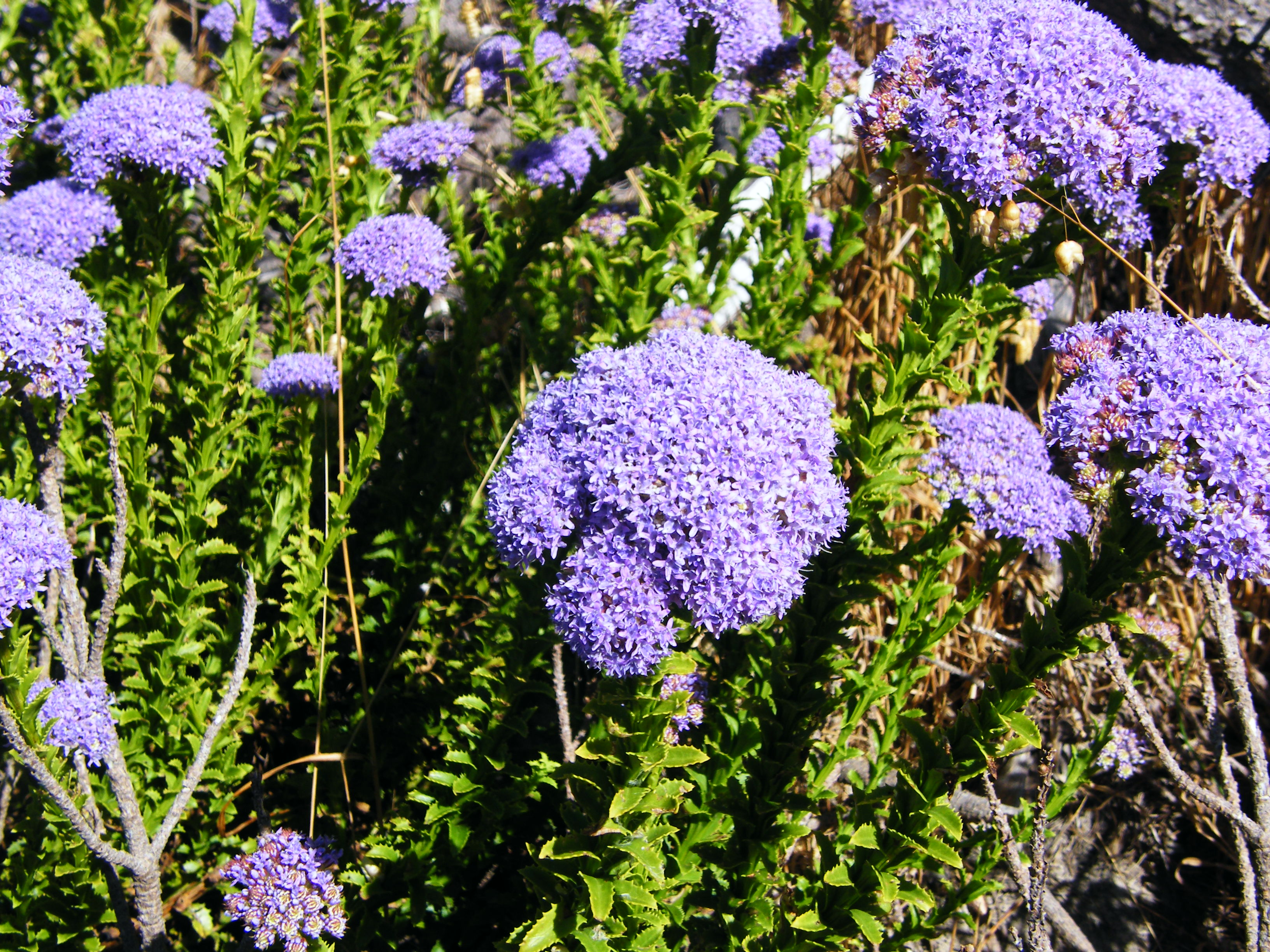 Purple powderpuff